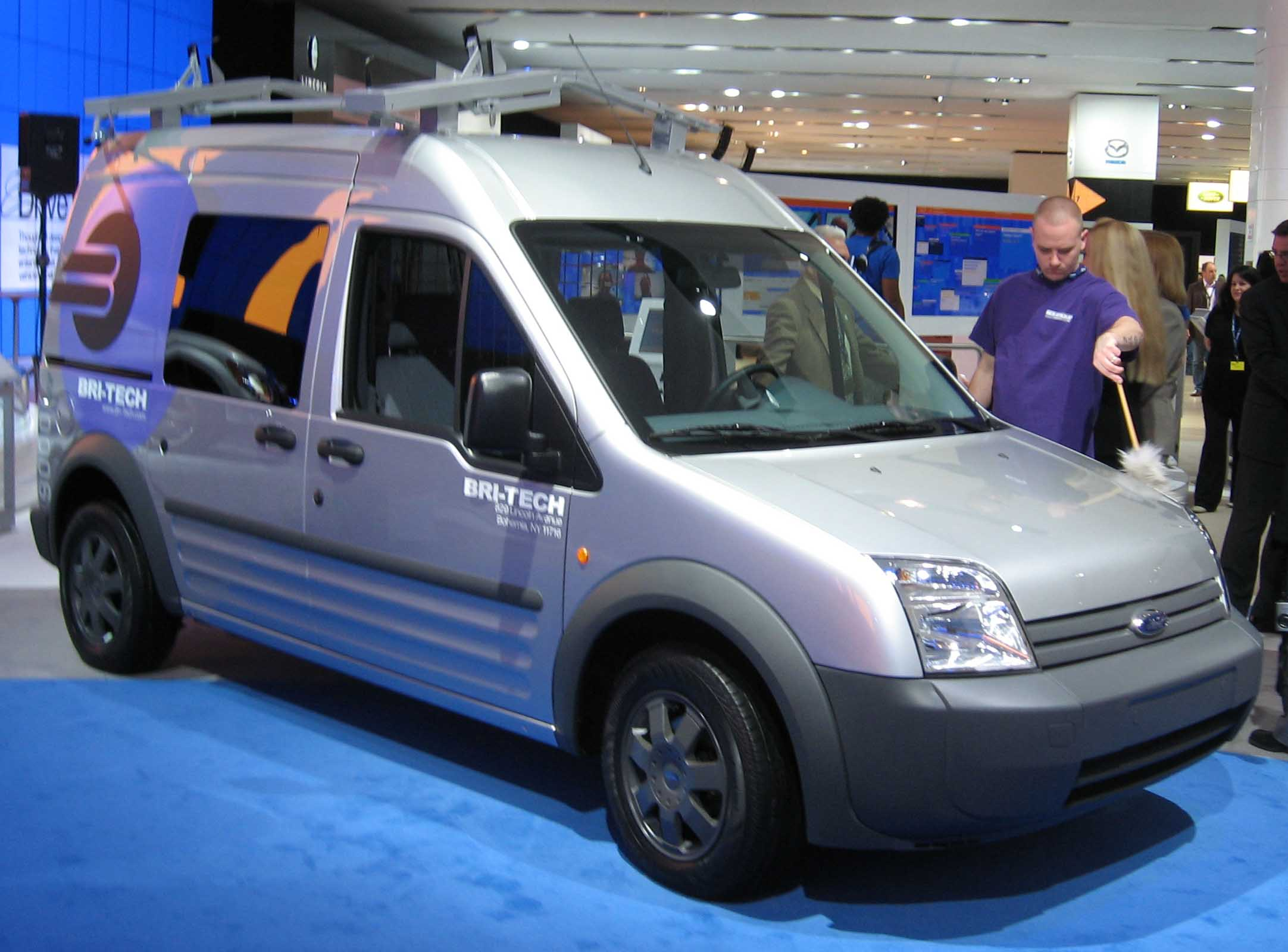 Ford Transit Connect photographed at the 2008 New York Auto Show.